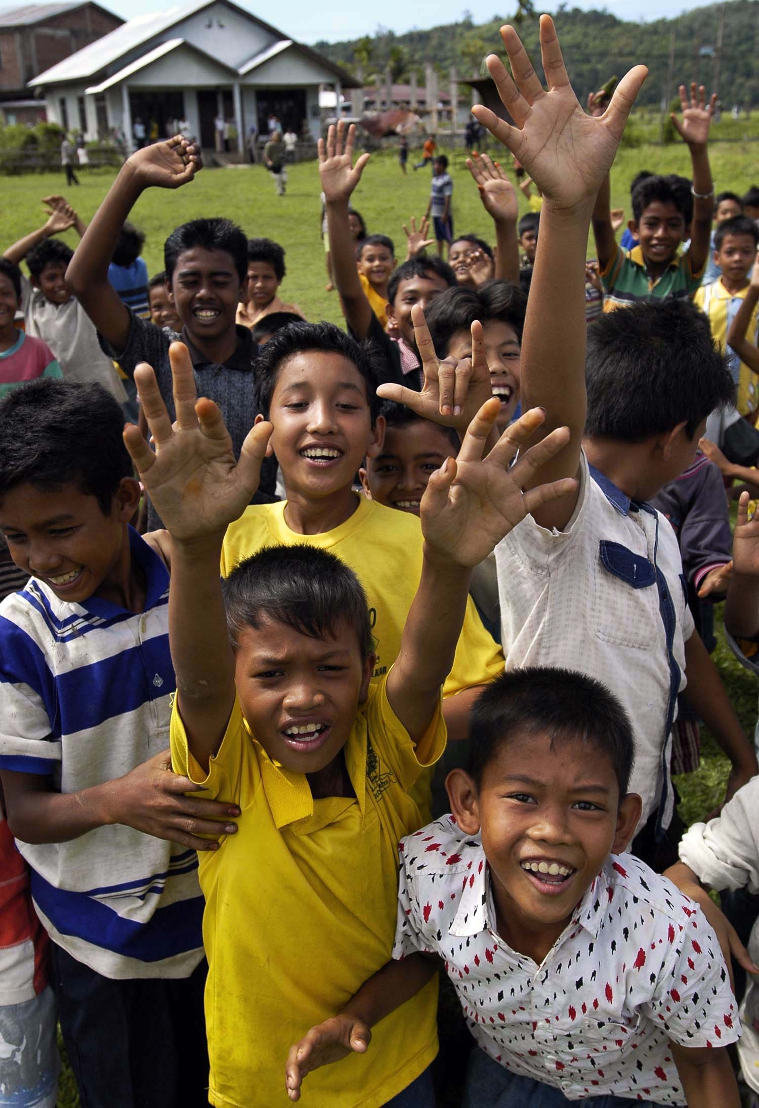 Island of Sumatra, Indonesia (Jan. 7, 2005) - Indonesian children of a village just inland from the coast of Sumatra, Indonesia, celebrate as food and water are flown to their village by a U.S. Navy MH-60S Knighthawk helicopter, assigned to the "Gunbearers" of Helicopter Combat Support Squadron Eleven (HC-11), Detachment Two. Helicopters and Sailors assigned to the USS Abraham Lincoln (CVN 72) Carrier Strike Group are supporting Operation Unified Assistance, the humanitarian operation effort in the wake of the Tsunami that struck South East Asia. The Abraham Lincoln Carrier Strike Group is currently operating in the Indian Ocean off the waters of Indonesia and Thailand. U.S. Navy photo by Photographer's Mate 3rd Class M. Jeremie Yoder (RELEASED)